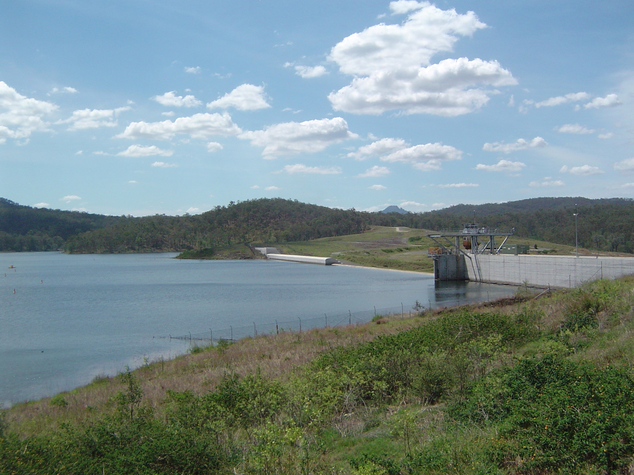 Photo of dam wall from viewing platform of Wyaralong Dam near Beaudesert, Queensland, Australia.